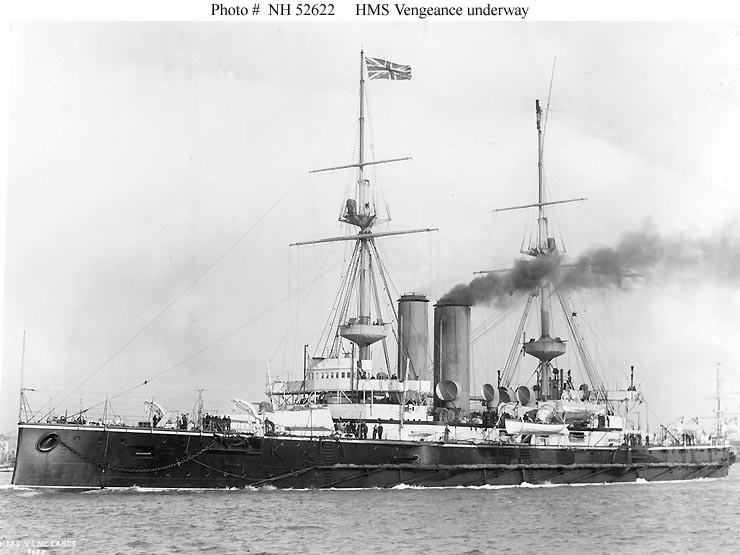 Photograph of British pre-dreadnought battleship HMS Vengeance. Caption : "Underway in harbor, prior to the adoption of the overall gray warship color scheme by the Royal Navy in about 1904."